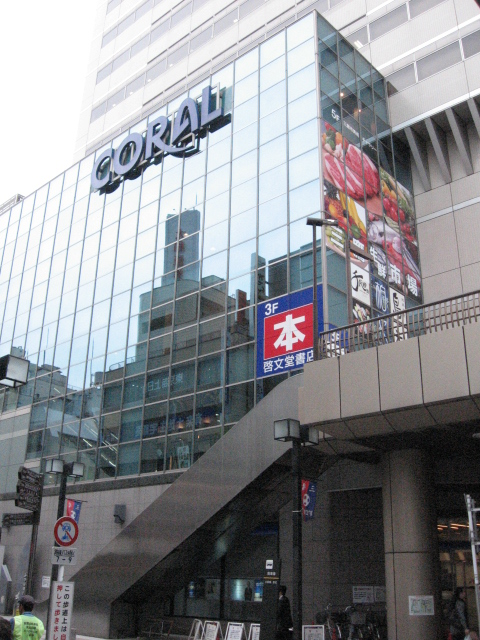 Commercial building "CORAL" in the JR Mitaka Station south gate.